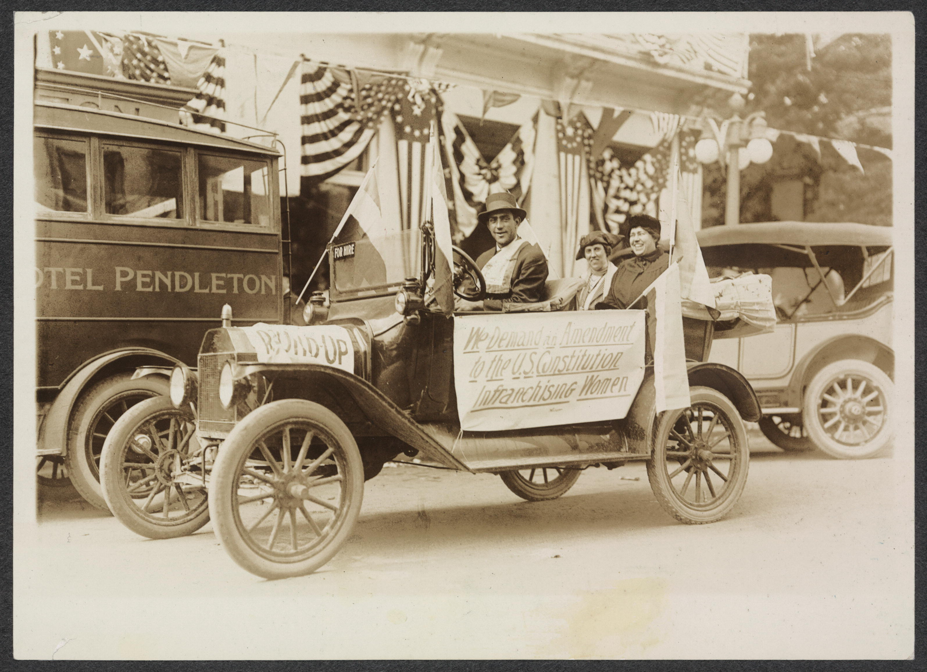 Photograph of man driving two women (Mary G. Fendall, left, and Margaret Whittemore, right) in car on street. Banner on car: "We Demand an Amendment to the U.S. Constitution Infranchising Women." Margaret Whittemore was Congressional Union-NWP organizer for election campaigns in Washington state in 1914 and 1916.